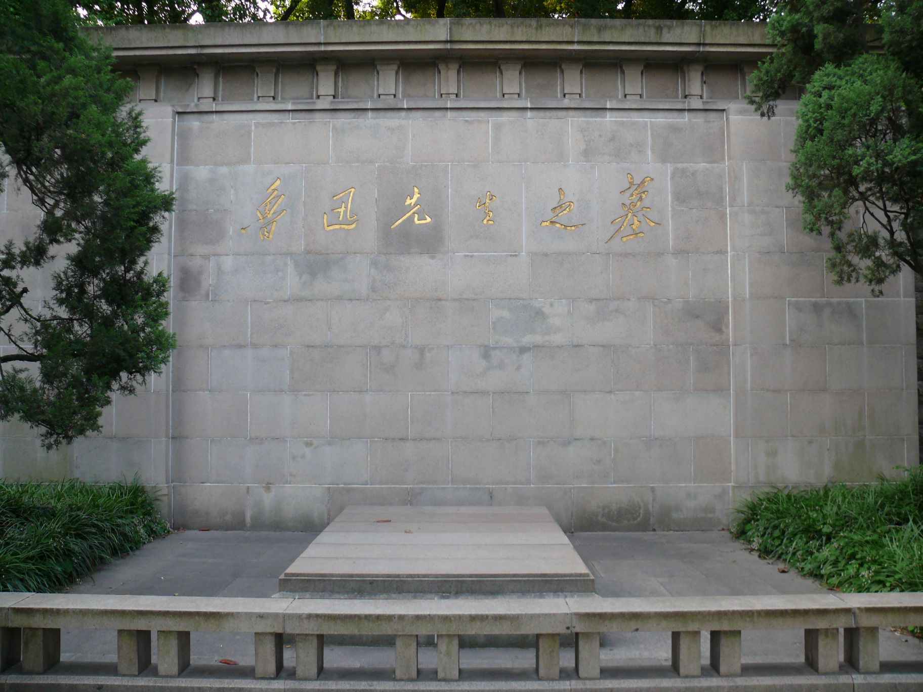 Tomb of Lu Xun, in Lu Xun Park (Shanghai, China).